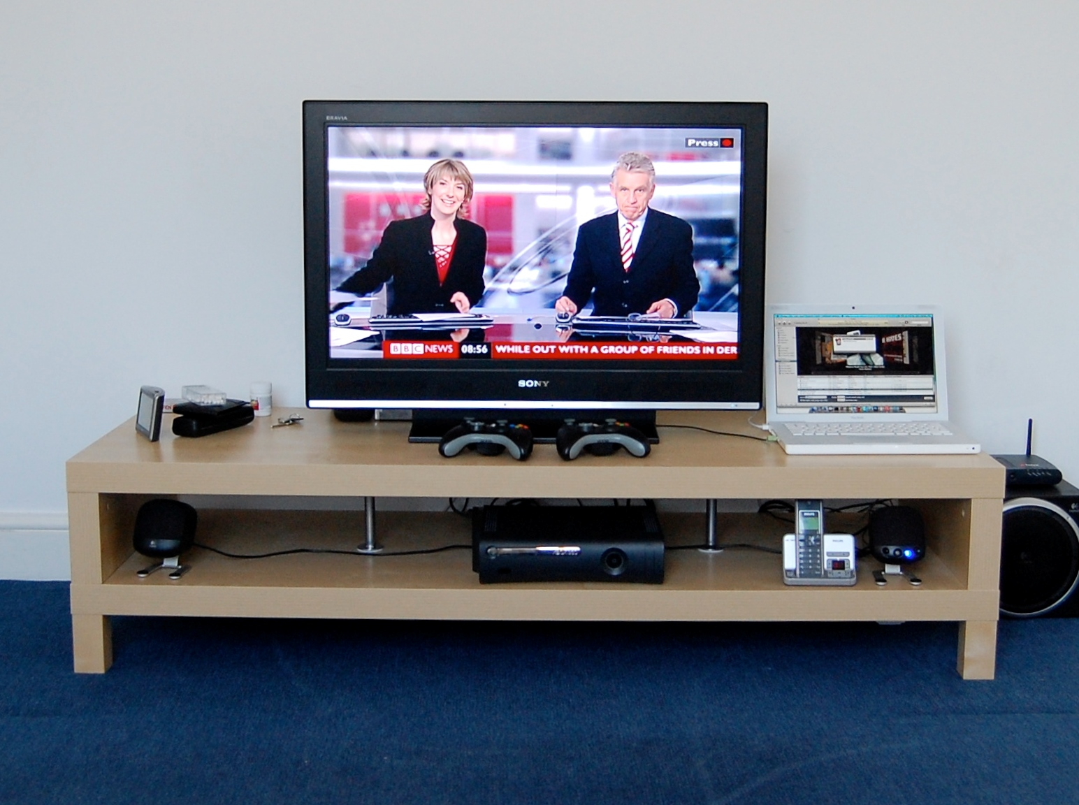 Media center connected to some devices